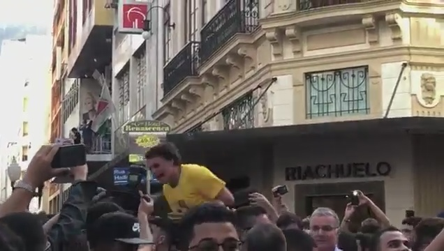 Deputy Jair Bolsonaro (man in yellow shirt) is stabbed while campaigning for president of Brazil.